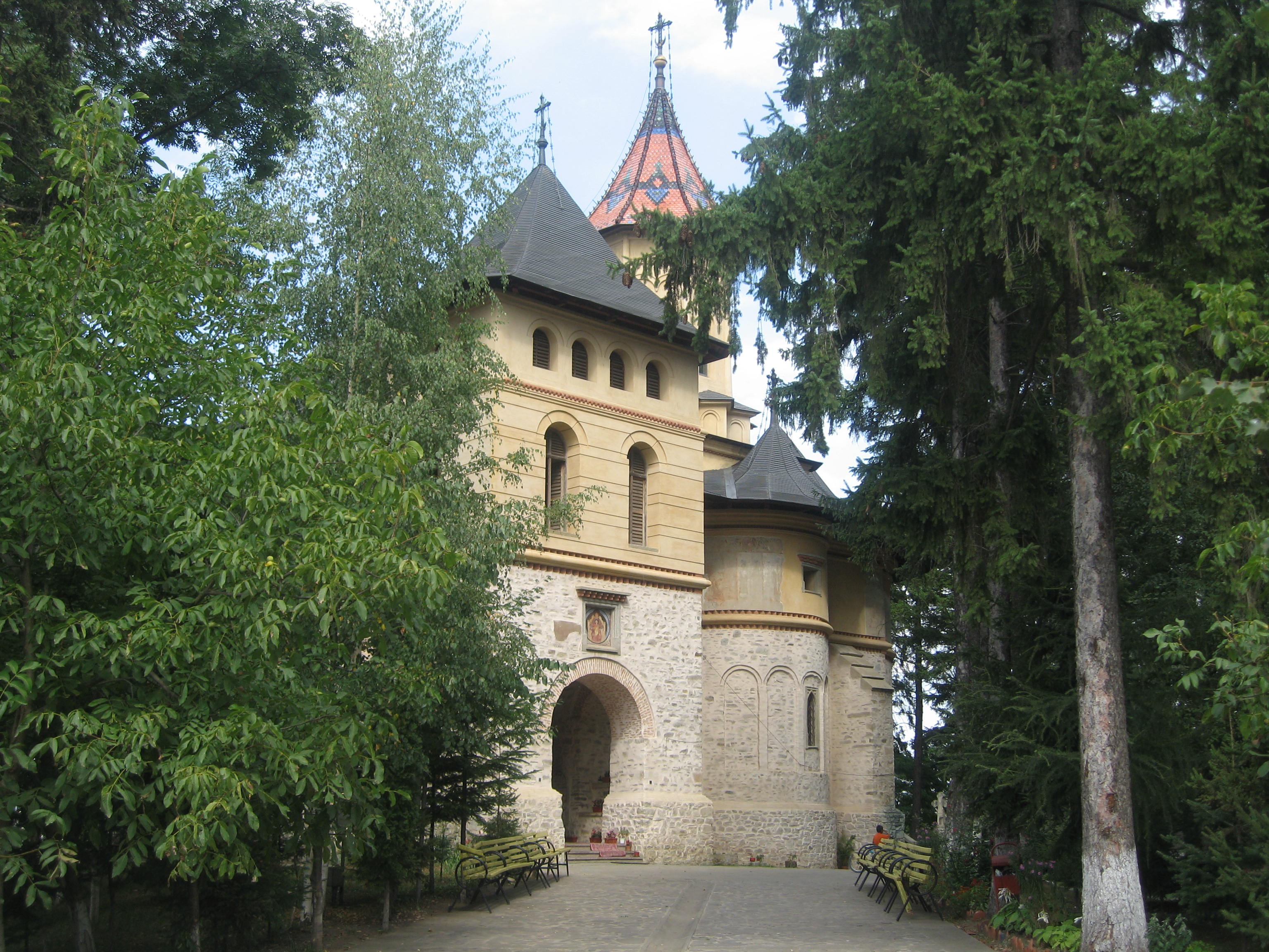 Mirăuţi Church in Suceava.